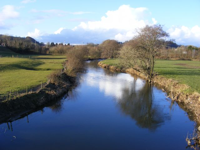 Afon Gwili (Looking North) View of the Afon (River) Gwili looking north from the Abergwili road bridge. The bridge carrying the A40(T) over the Gwili is at the top of the picture